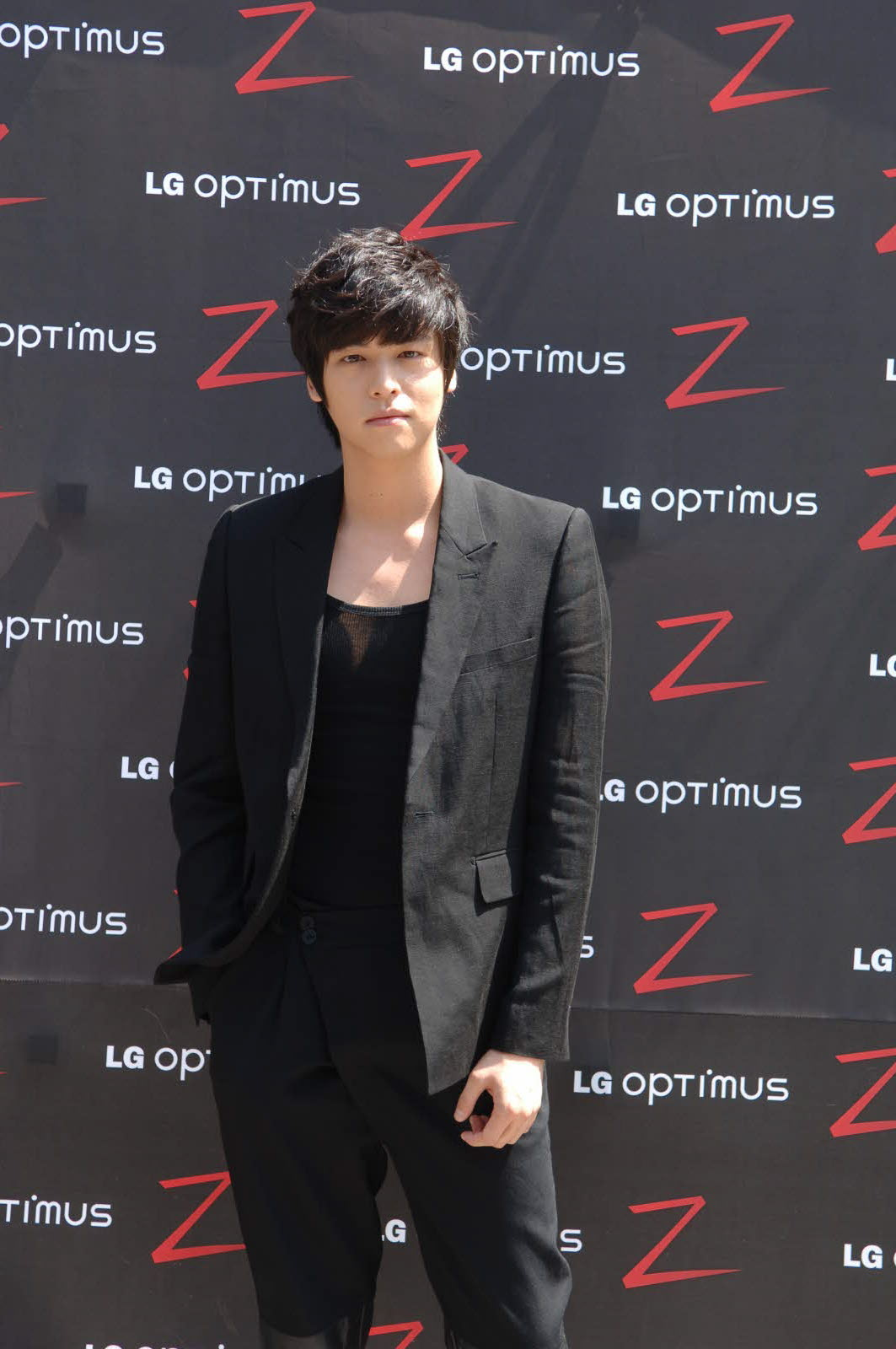 Lee Jang-Woo